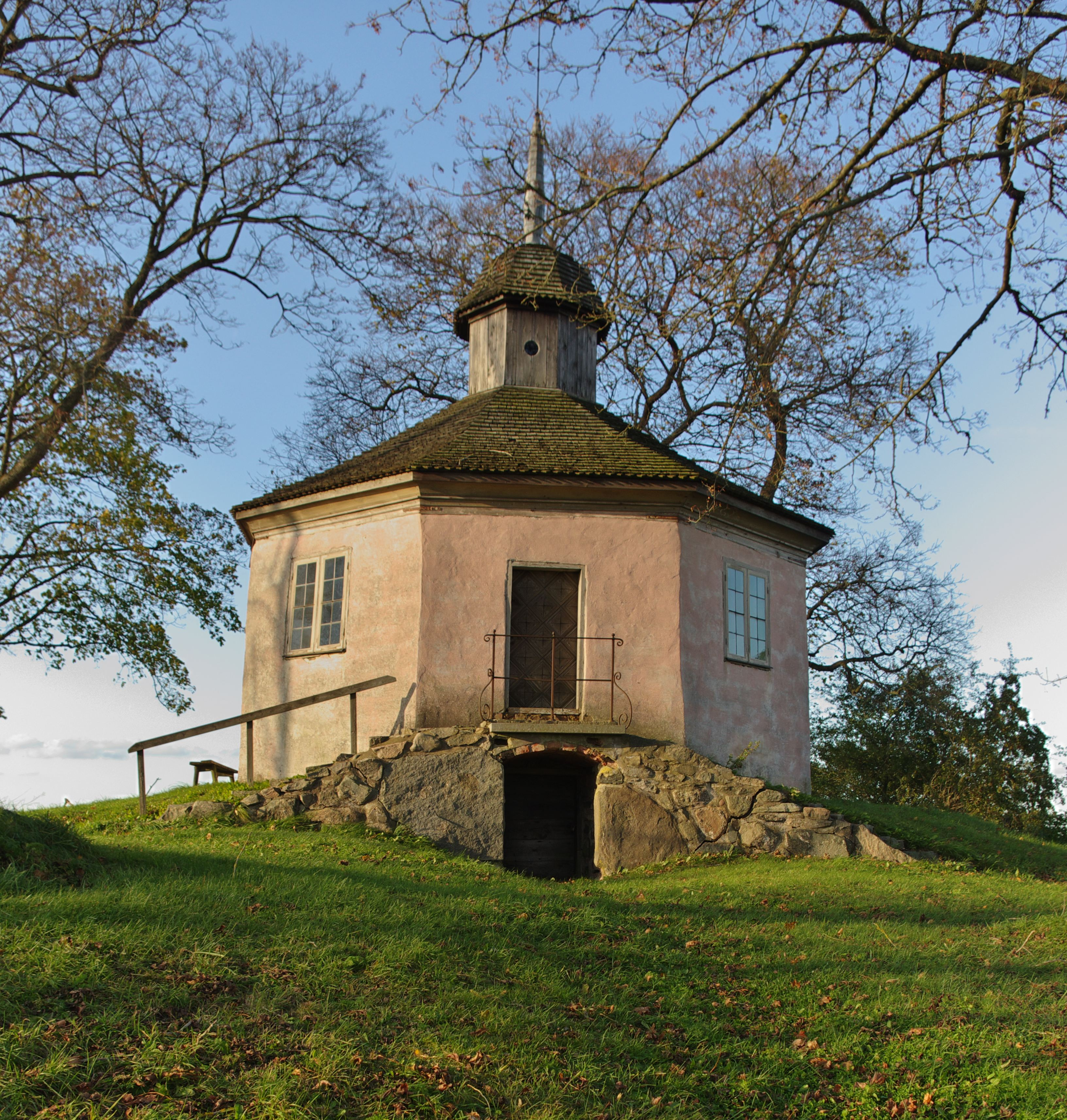 Ölanda kapell (english:Ölanda chapel) in Västergötland and Skara municipality in Västragötaland county, Sweden.